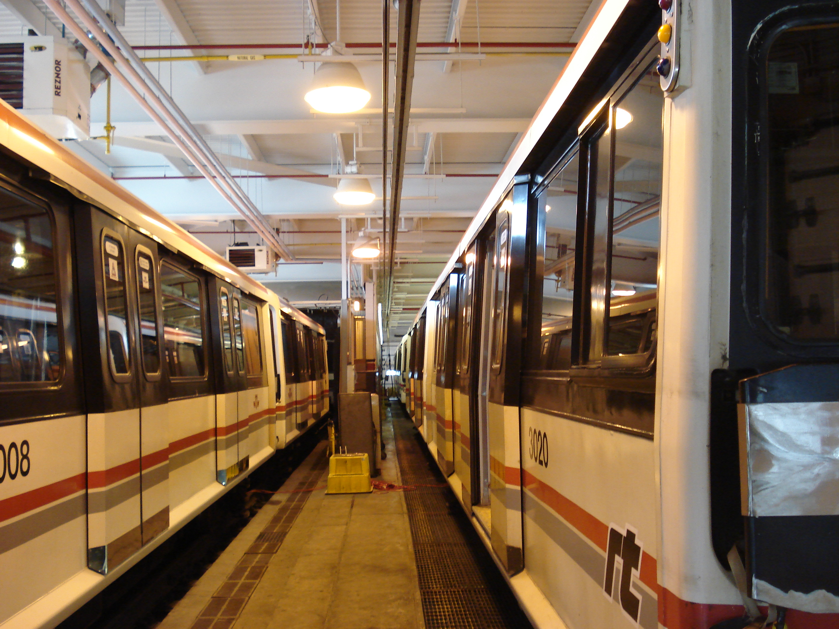 ICTS cars seen in the TTC's McCowan Carhouse